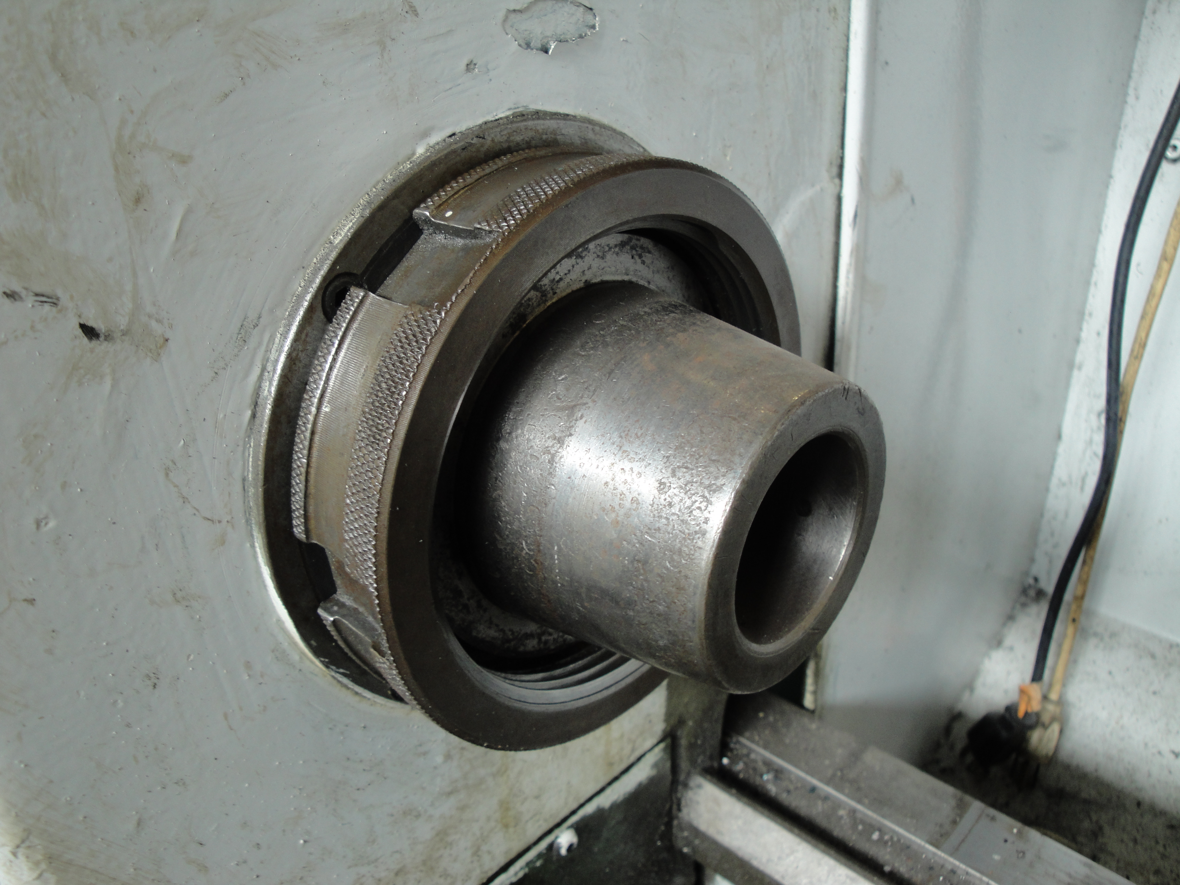 A tapered spindle nose with threaded retention. A type of lathe spindle nose that provides high concentricity when mounting a chuck. The chuck's back plate has a matching taper.